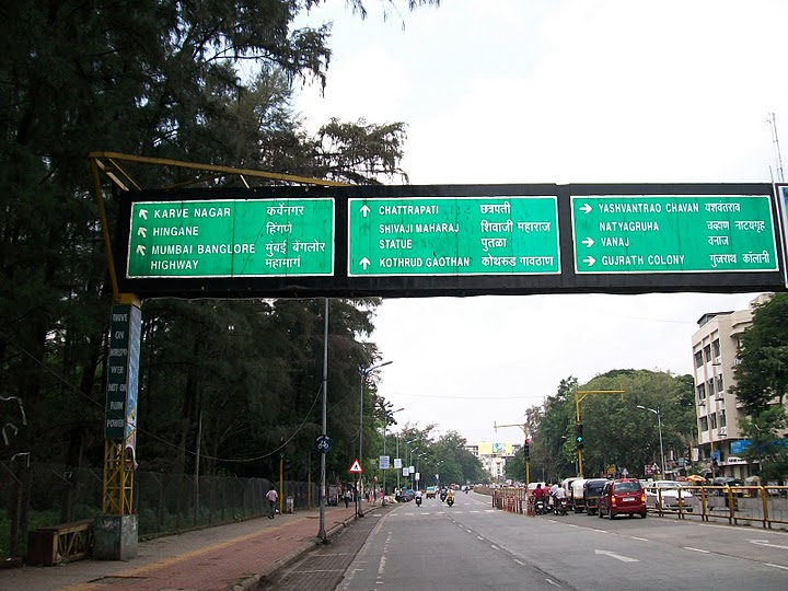 Karve Road